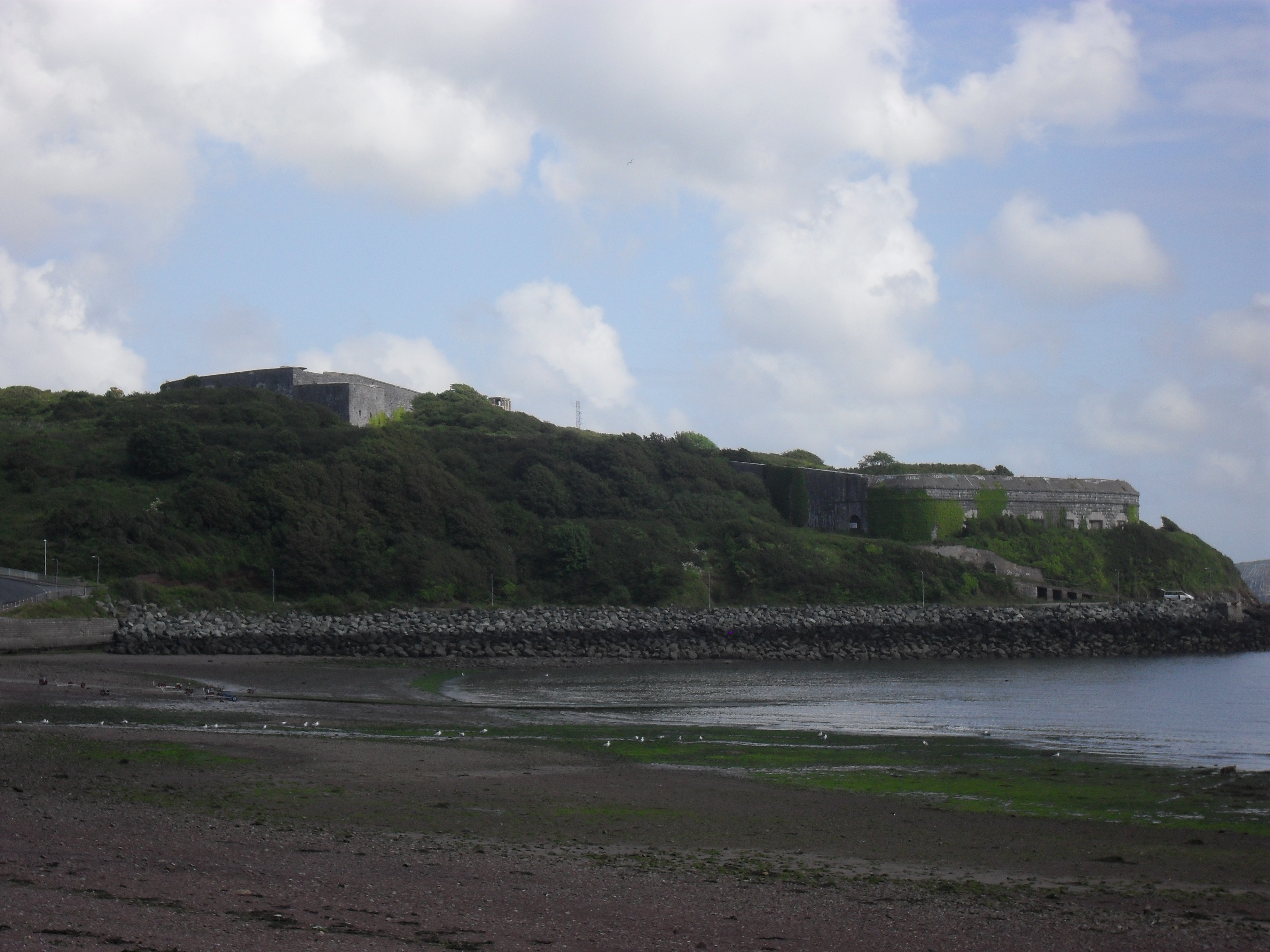 View of Fort Hubberstone from Gelliswick beach.